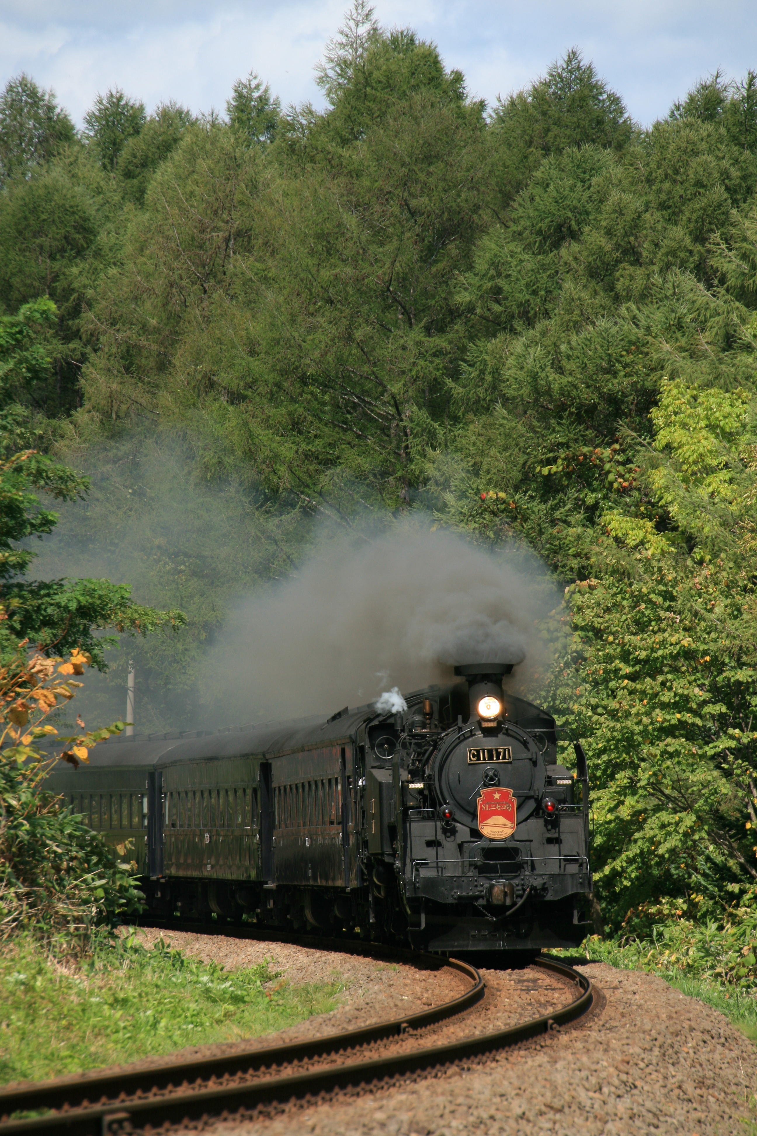 SL Niseko Steam Train on the Hakodate Main Line in Hokkaidō, Japan.